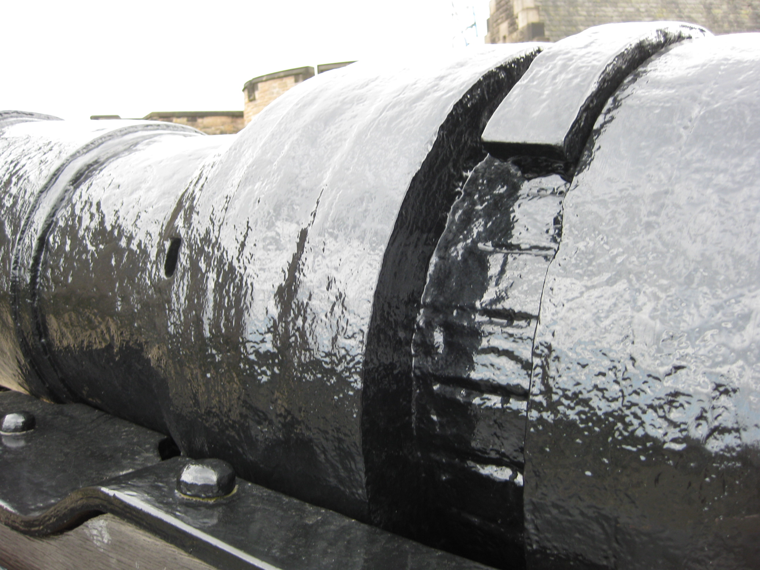 Burst barrel of the Mons Meg, a medieval supergun of the first half of the 15th century from Edinburgh, Scotland